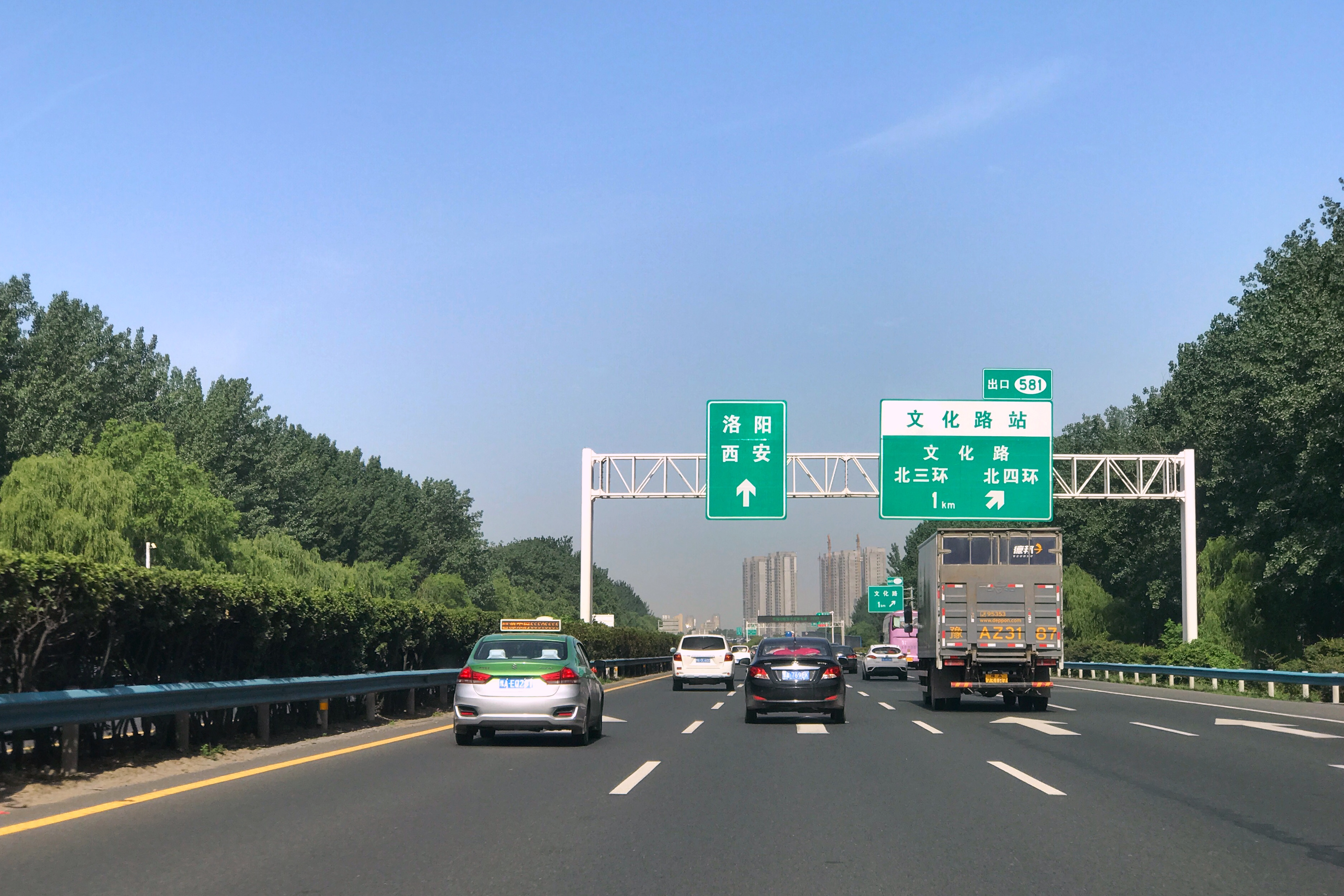 G30 Lianhuo Expwy near Wenhua Road exit